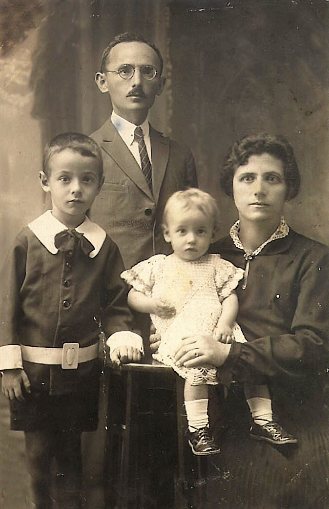 Kuzman_Yosifov_and_Maria_Yosifova_and_their_kids_Lyben_Yosifov_and_Iskra_Baeva.jpg